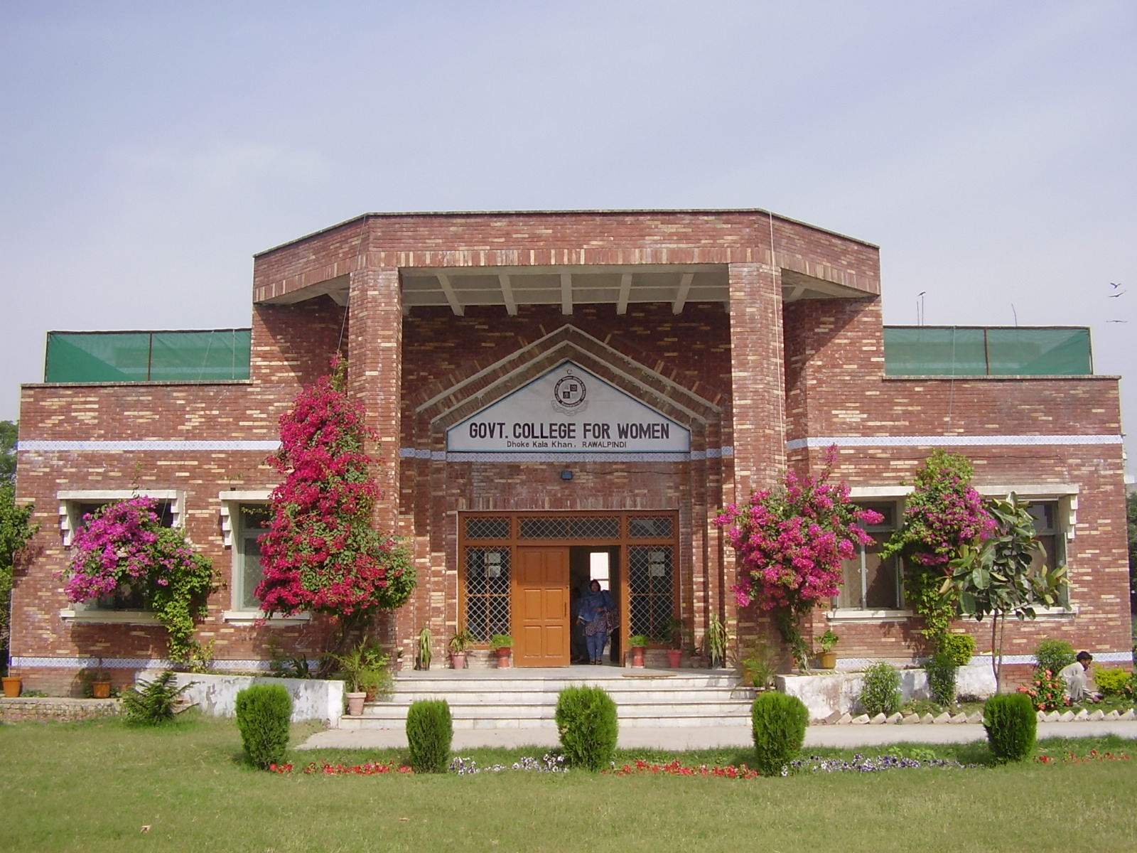 Government College for Women, Dhoke Kala Khan Rawalpindi, Pakistan پنجابی: گورنمنٹ کالج فار ویمن ٹعوک کالا خان